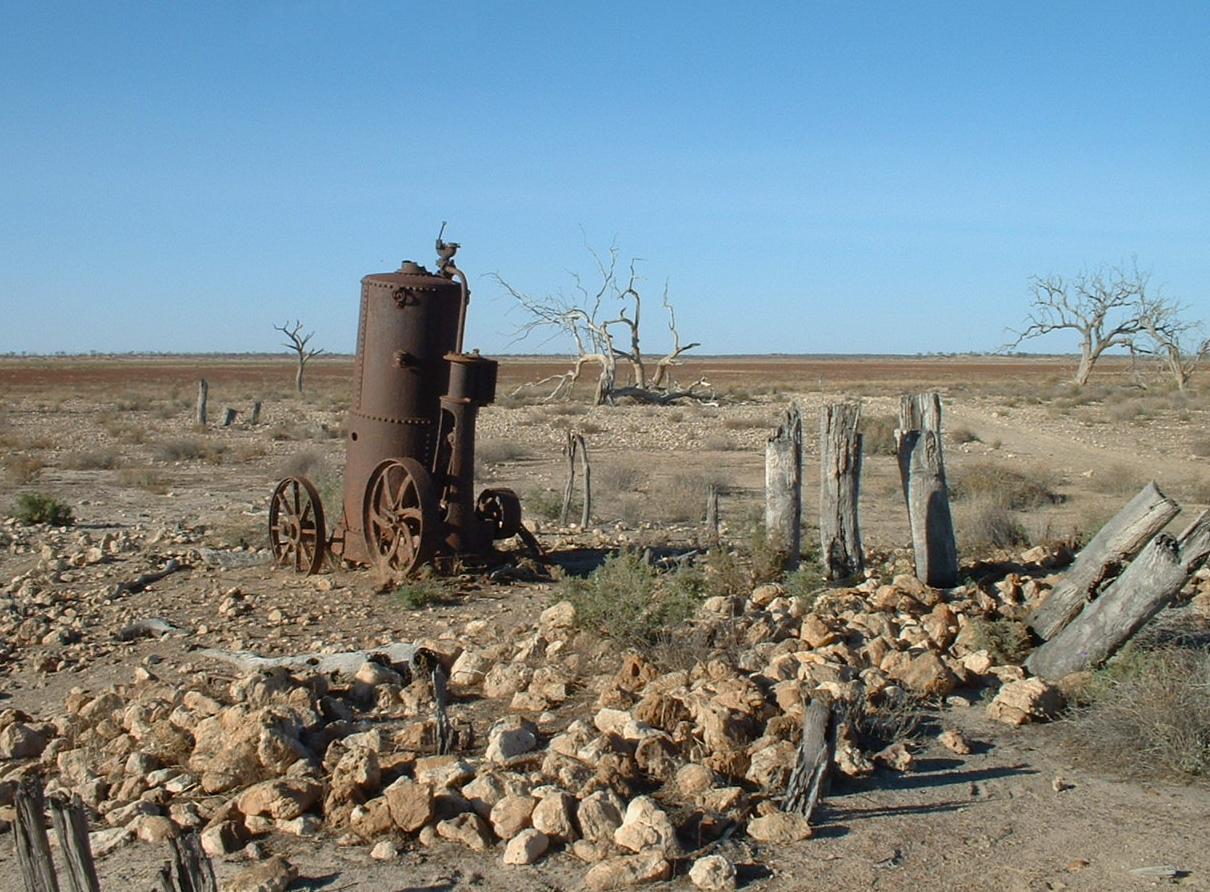 Water pump for the well in the middle of Lake Pinaroo, Sturt National Park, New South Wales. Supplied water for the Fort Grey homestead, as well as for stock and the shearing sheds in the dry lake bed.